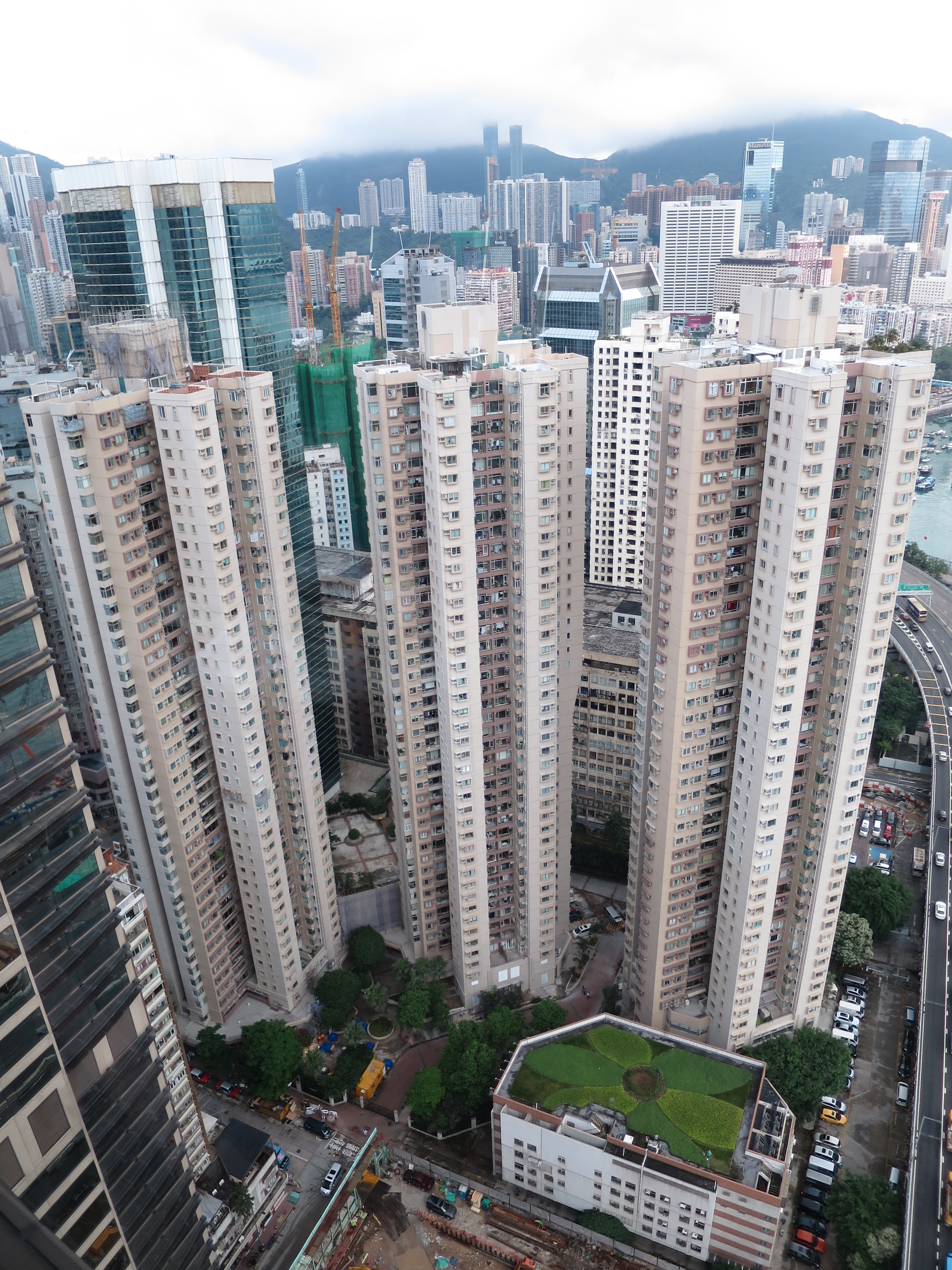 Tower 1 to 3 of Harbour Heights on Fook Yam Road as seen from Harbour Grand Hong Kong